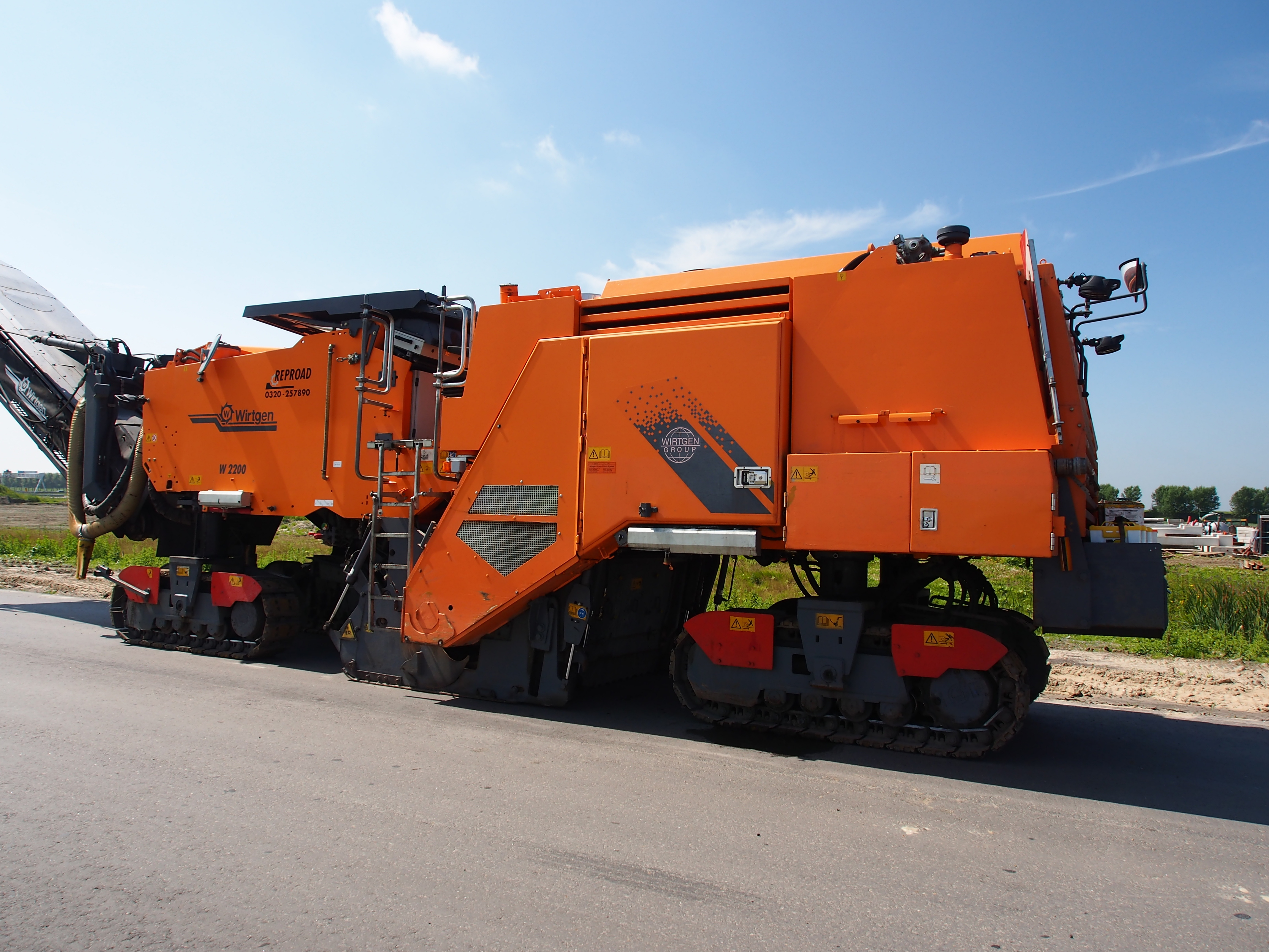 Photographed at Hoofddorp, the Netherlands.